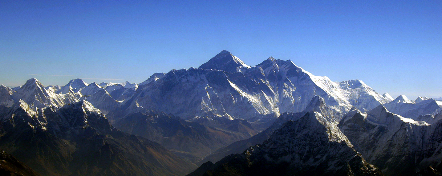 Aerial view of Everest. Picture taken by the author during Buddha Air's Everest Tour.